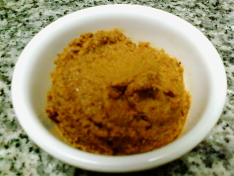 Red Kroeung paste after all ingredients are well blended.